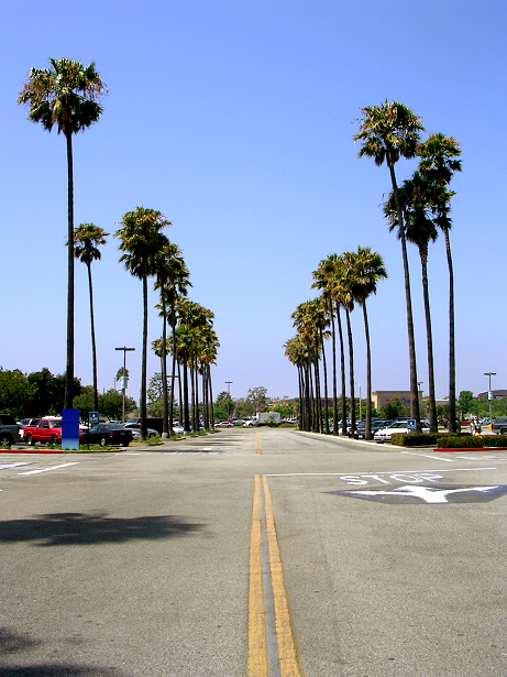 Palm avenue (allée) — looking west from Sears at Del Amo Mall in Torrance, Los Angeles County, California. august 2007.